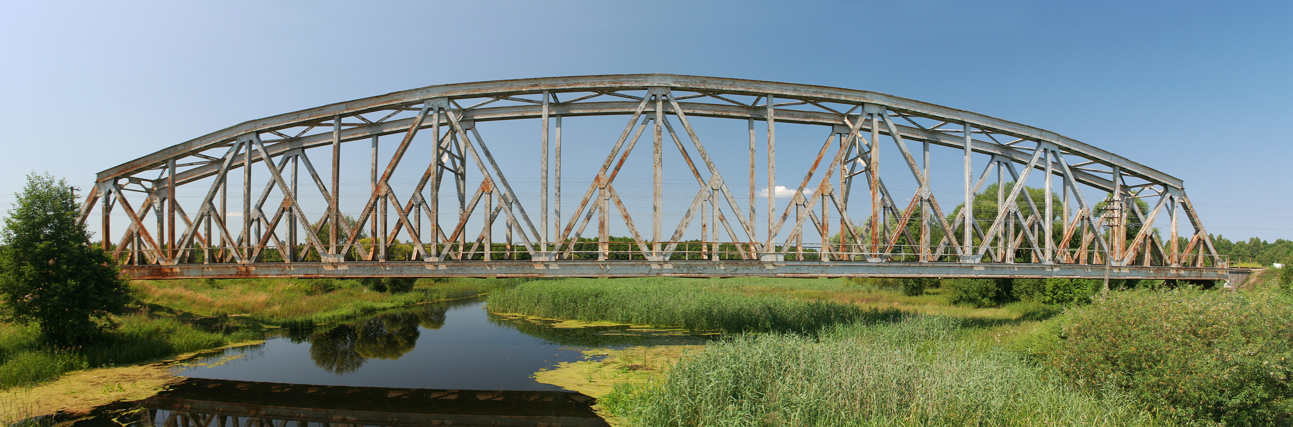 Railway bridge over Biebrza.